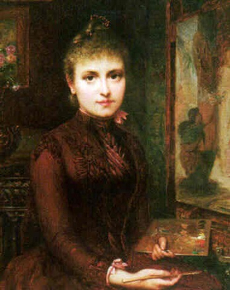 Self-portrait with palette, while painting the same genre as her Two Italian women of the year before